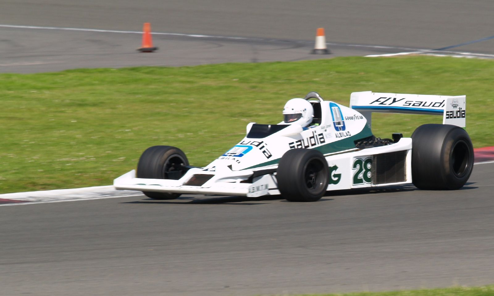 A Williams FW06 Formula One car being raced at the Silverstone Classic meeting in 2007.